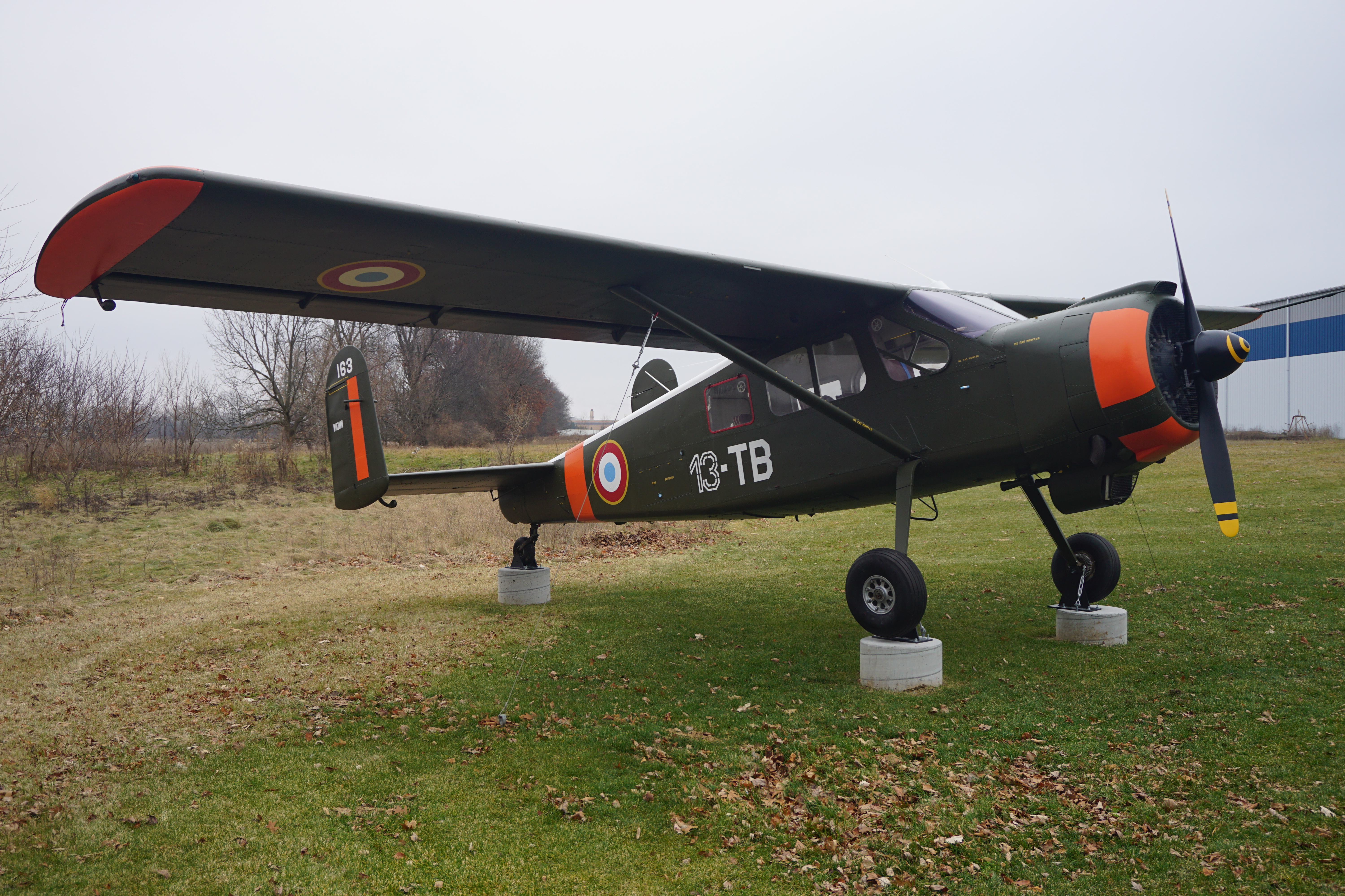 A Max Holste MH.1521 Broussard on display at the Air Zoo at Kalamazoo/Battle Creek International Airport in Portage, Michigan (United States).